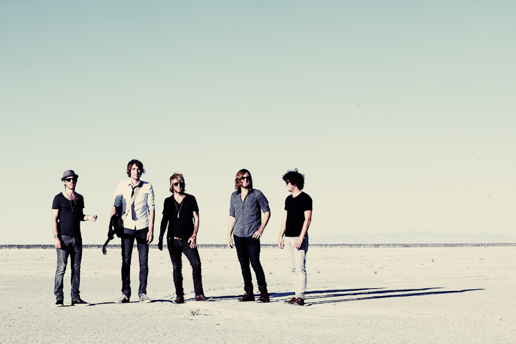 This is a picture of the band Green River Ordinance taken in 2010 by Eric Ryan Anderson.